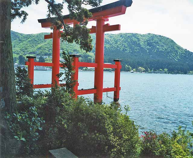 Torii at Hakone Shinto Shrine, Kanagawa, Japan I took this photograph and contribute it to the public domain.